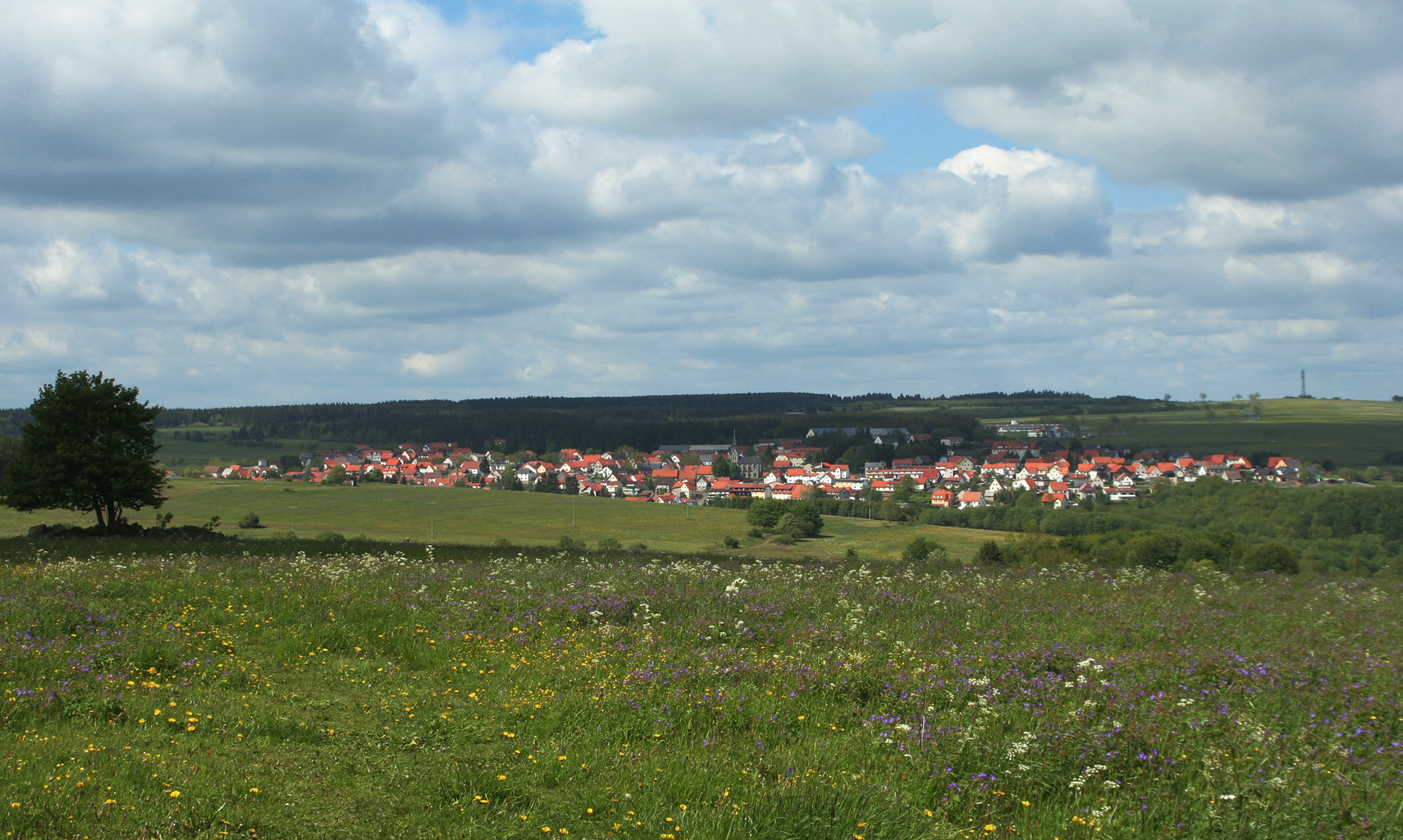 The village Frankheim in the Rhön